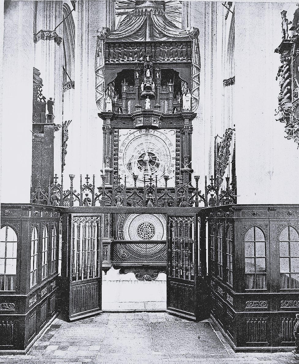 The astronomical clock (1561-1566) in St.Mary Church, Lübeck, destroyed in 1942.